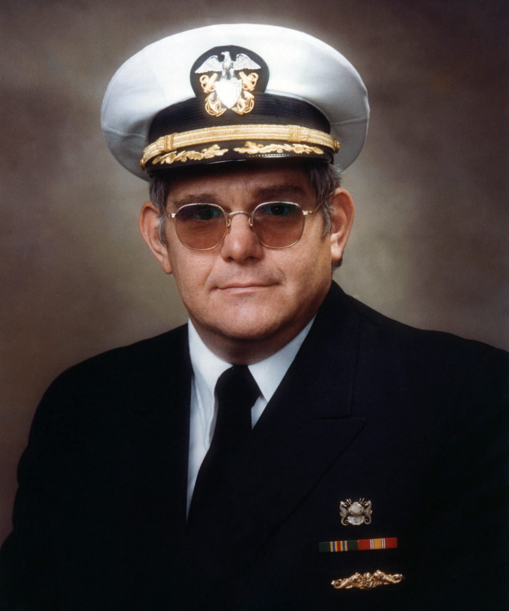 Official service photo of Captain Edward D. Thalmann, USN.